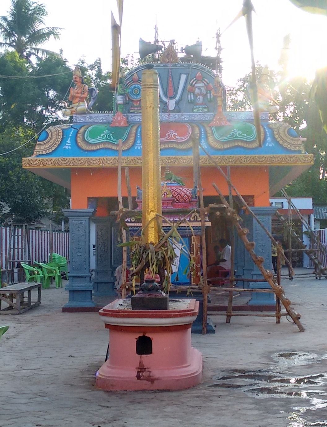 Tanjorevaradarajaperumal2 தஞ்சாவூர் வரதராஜப்பெருமாள் கோயில்